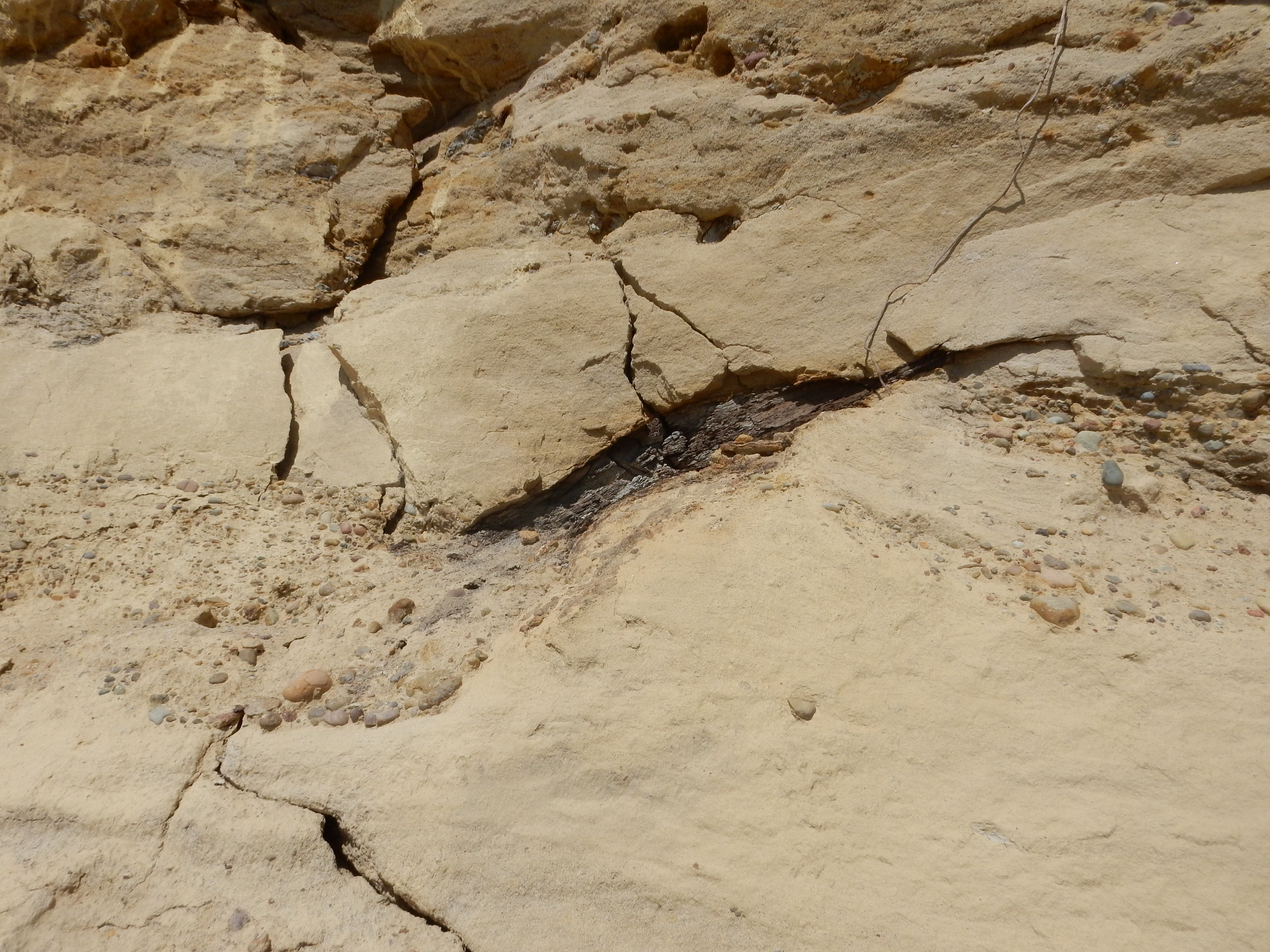 This image shows an exposure of the Ojo Alamo Formation in the De-Na-Zin Wilderness, New Mexico, USA. The exposure includes a conglomerate lens with a large fragment of petrified wood. The Ojo Alamo Formation straddles the Cretaceous-Paleocene boundary, though the precise boundary is lost in an intraformational disconformity.